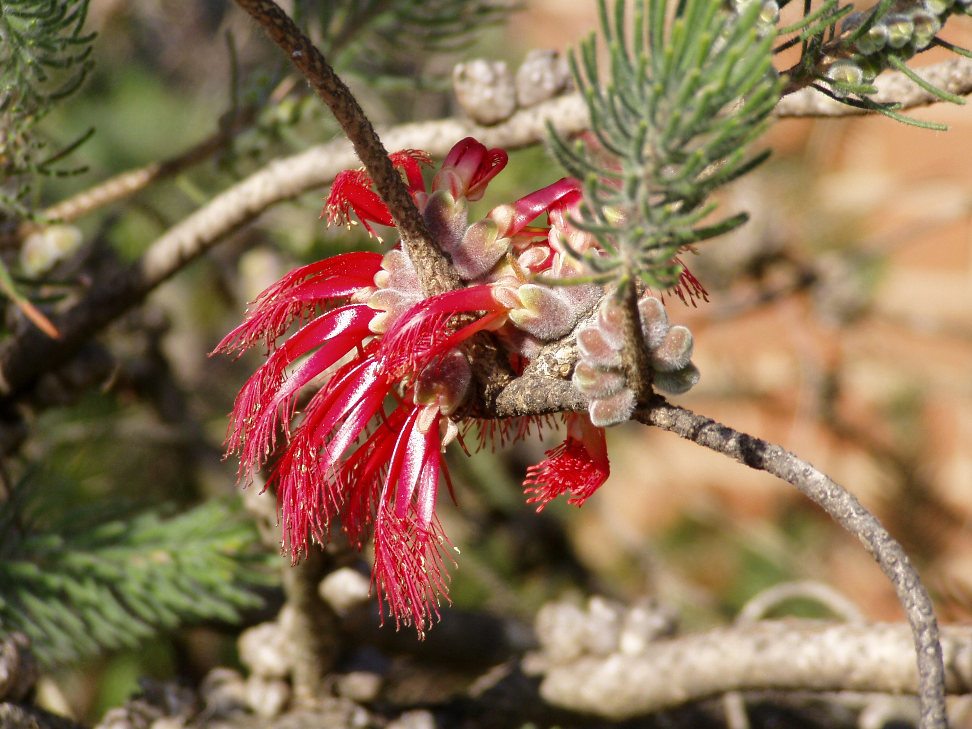 Description: One-sided bottlebrush (Calothamnus quadrifidus subsp. quadrifidus) - flowers Location: Australian National Botanic Gardens, Canberra, Australian Capital Territory, Australia Date: 2005-09-21 Source: picture taken by Danielle Langlois Licence: Released under GFDL and Creative Commons licenses by the photographer